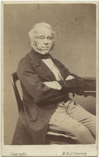 Henry John Temple, 3rd Viscount Palmerston (1784-1865)